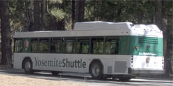 A Gillig Hybrid Low-Floor Bus operating in Yosemite National Park. Image taken from National Park Service website.